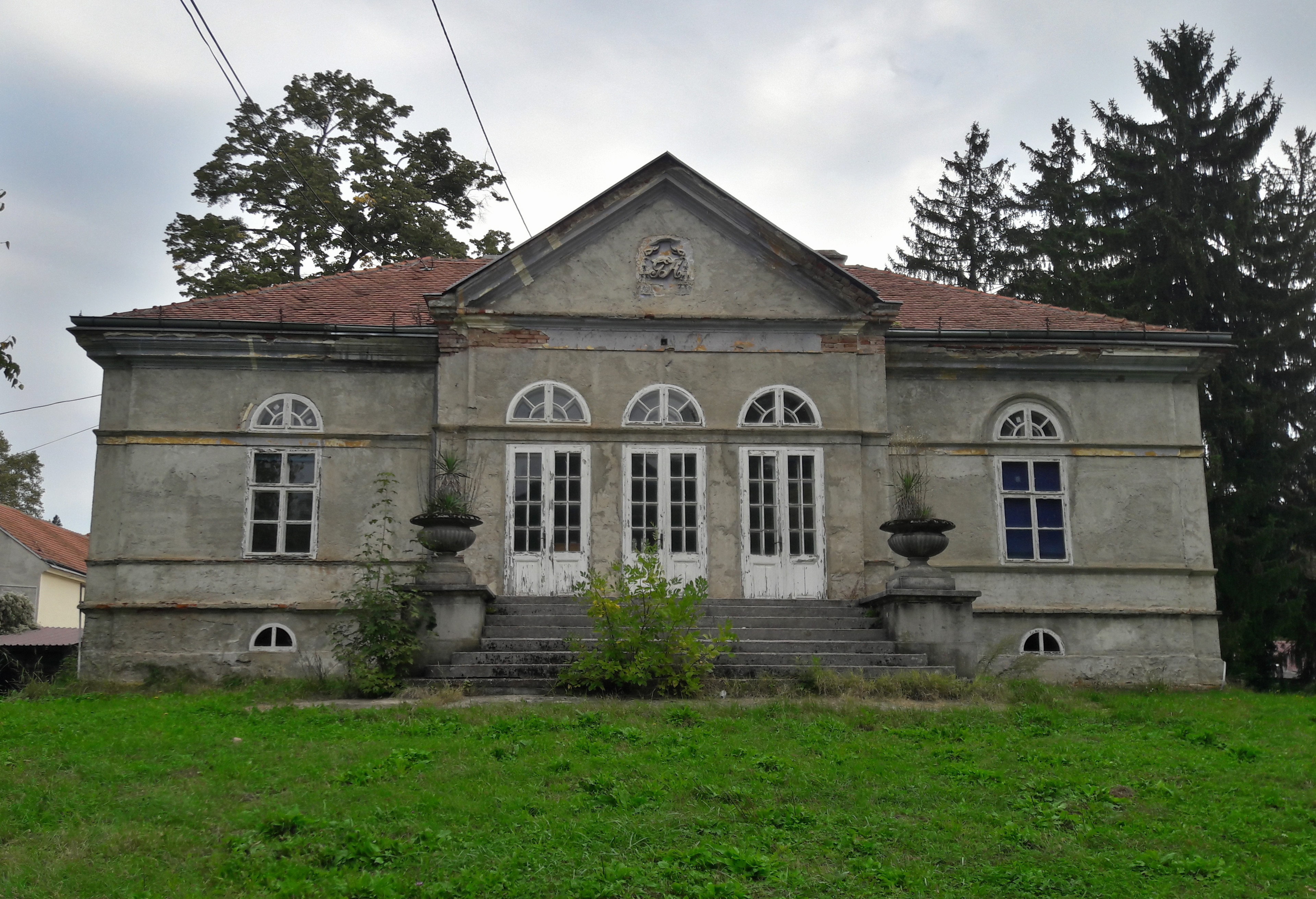 Bishop Haulik's Summer House enterance in Park Maksimir